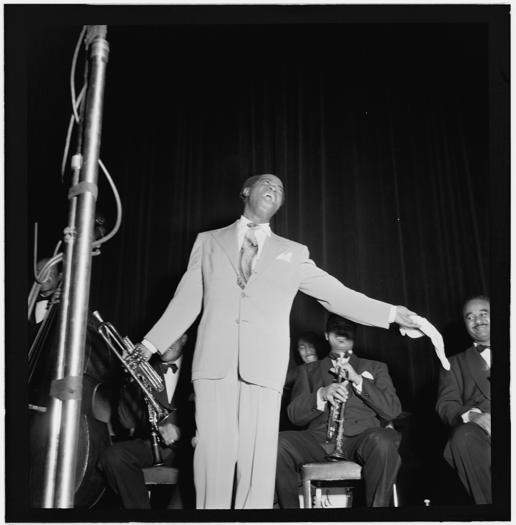 Gottlieb, William P., 1917-, photographer. [Portrait of Louis Armstrong, Carnegie Hall, New York, N.Y., ca. Feb. 1947] 1 negative : b&w ; 2 1/4 x 2 1/4 in. Notes: Gottlieb Collection Assignment No. 012 Reference print available in Music Division, Library of Congress. Purchase William P. Gottlieb Forms part of: William P. Gottlieb Collection (Library of Congress). Subjects: Armstrong, Louis, 1900-1971 Jazz musicians--1940-1950. Trumpet players--1940-1950. Carnegie Hall Format: Portrait photographs--1940-1950. Group portraits--1940-1950. Film negatives--1940-1950. Rights Info: Mr. Gottlieb has dedicated these works to the public domain, but rights of privacy and publicity may apply. Repository: (negative) Library of Congress, Prints & Photographs Division, Washington D.C. 20540 USA, (reference print) Library of Congress, Music Division, Washington D.C. 20540 USA, Part Of: William P. Gottlieb Collection (DLC) 99-401005 General information about the Gottlieb Collection is available at Persistent URL: Call Number: LC-GLB23- 0026 This work is from the William P. Gottlieb collection at the Library of Congress. Rights and restrictions.In accordance with the wishes of William Gottlieb, the photographs in this collection entered into the public domain on February 16, 2010.